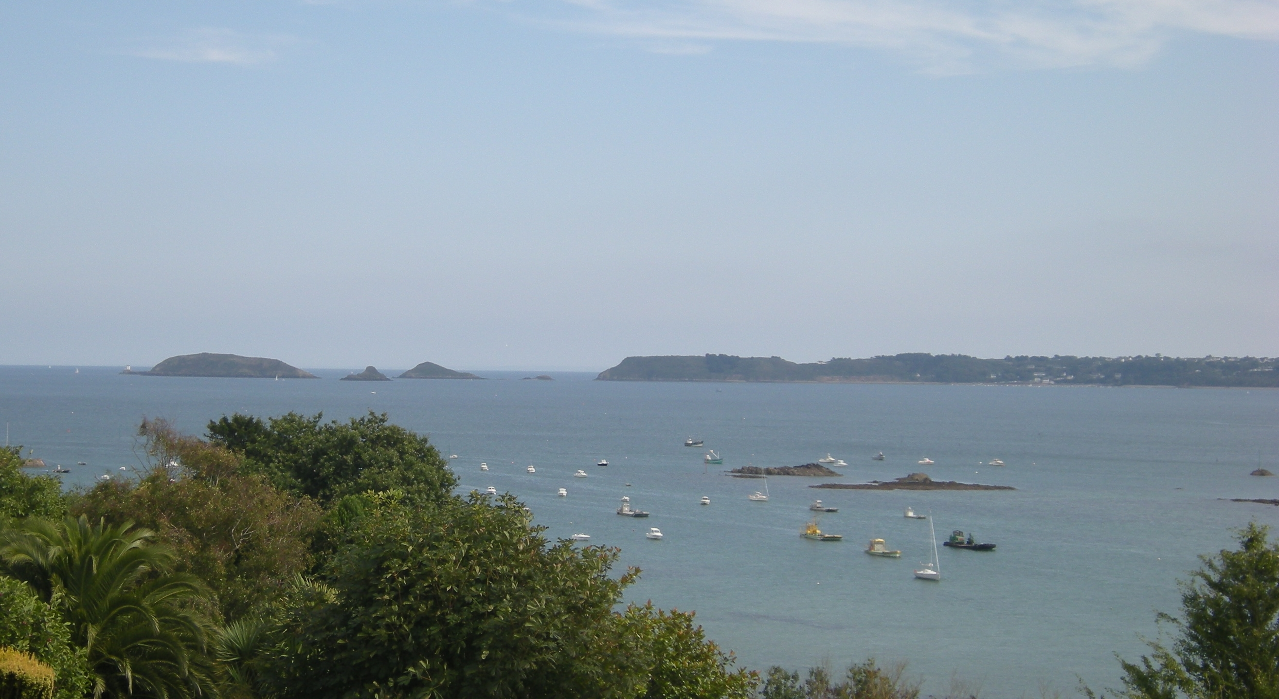 in Paimpol bay and, in the background, of Plouézec territory, looking south-east from Pors-Even in Ploubazlanec (fr). In the background, on the left side are the Mez de Goëlo (fr) with, on the uttermost left of the islets, the Hospic lighthouse ; on the right side, Plouézec point.